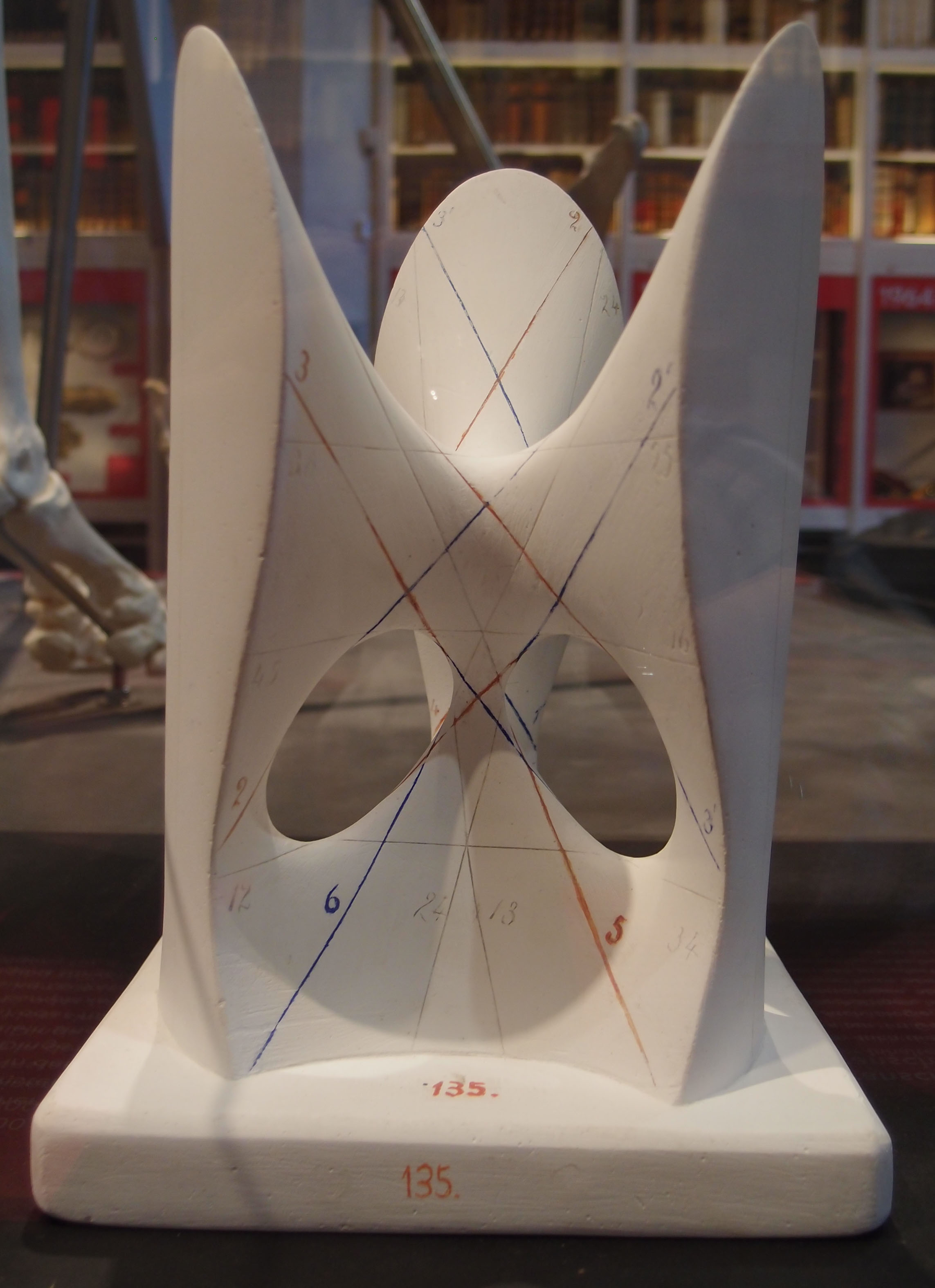 Model in the collection of mathematical models and instruments, Georg-August-Universität Göttingen Göttingen.see also for more information on the models